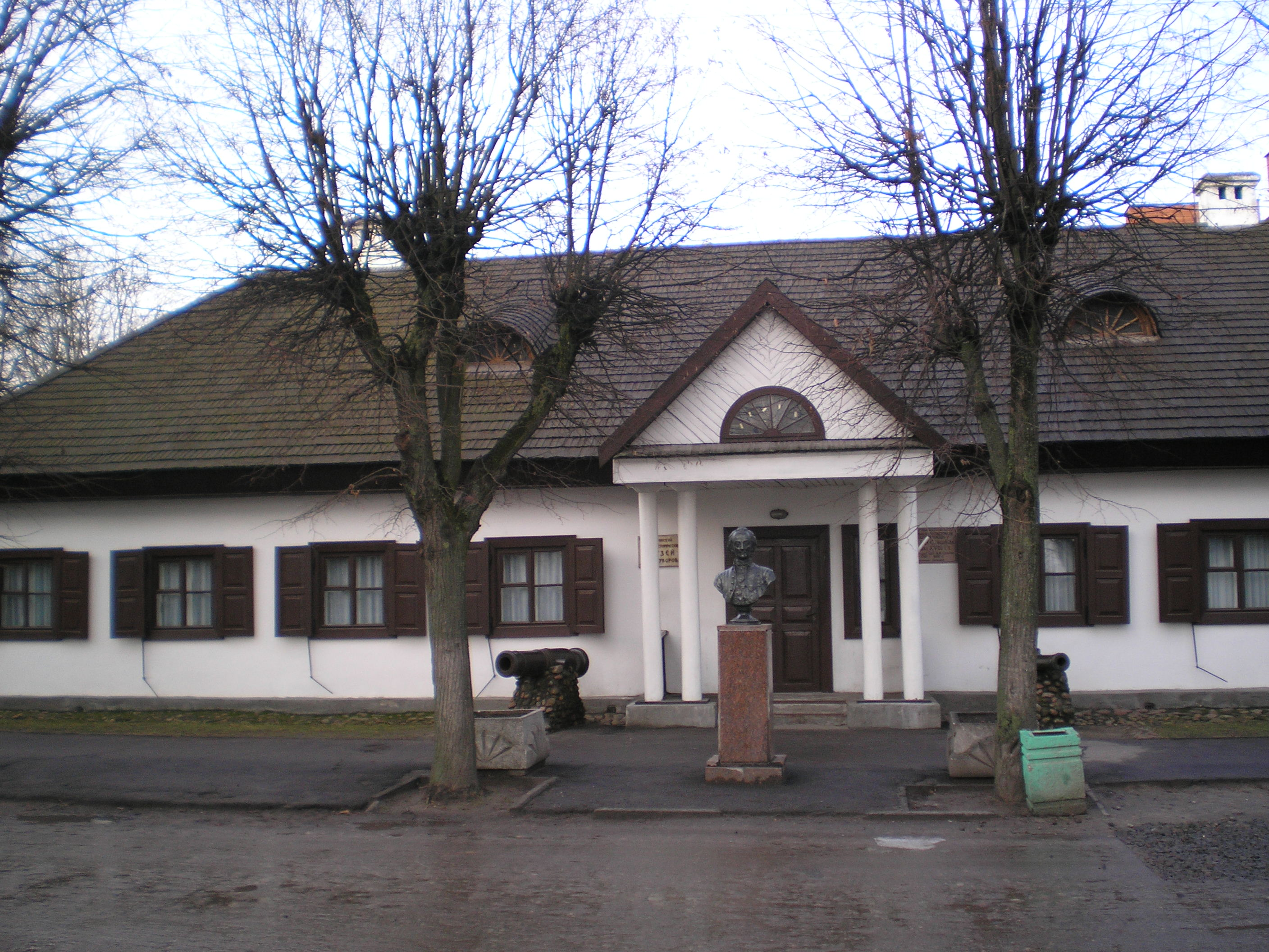 Suvorov Museum in Kobrin